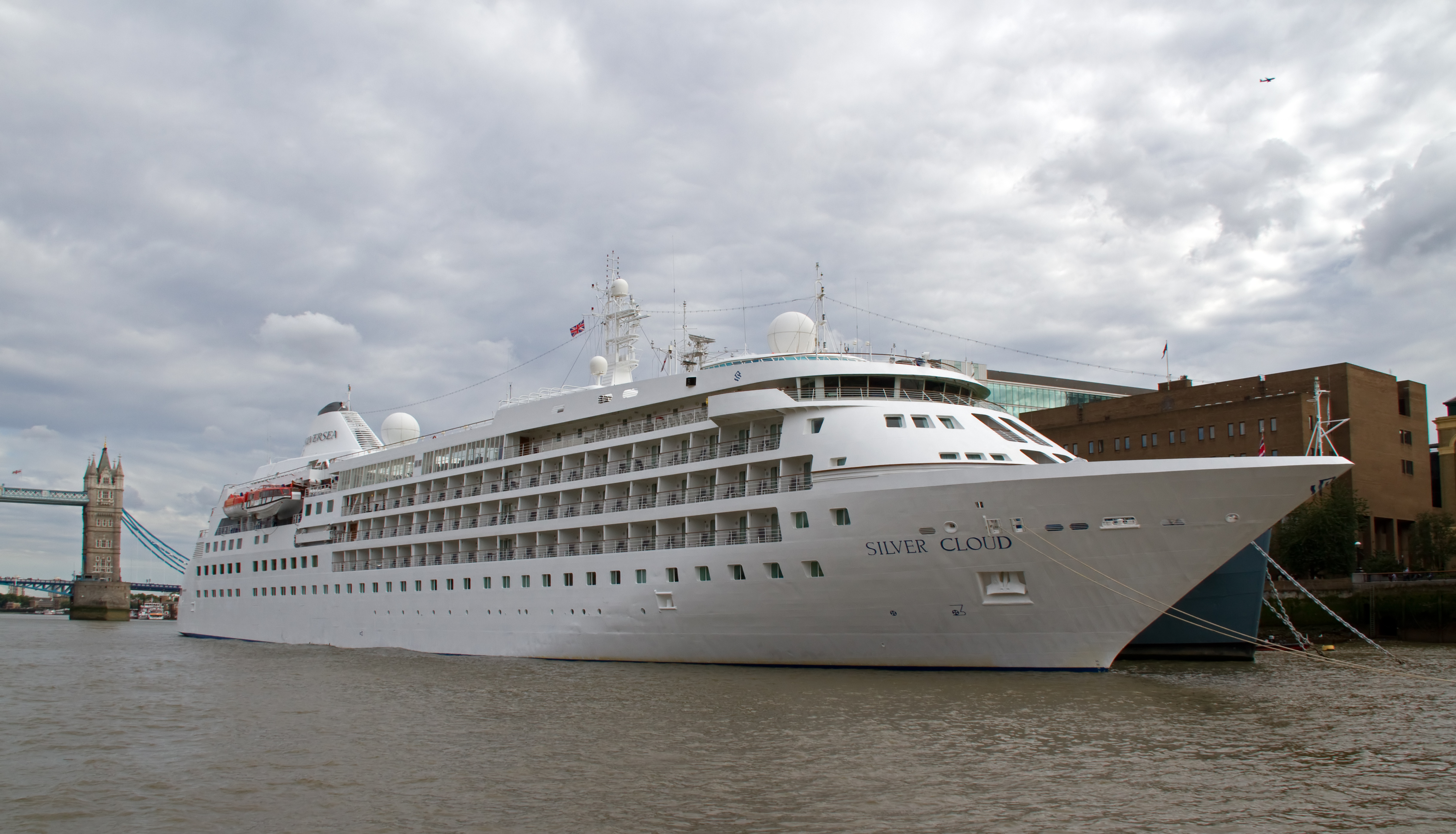 Silver Cloud